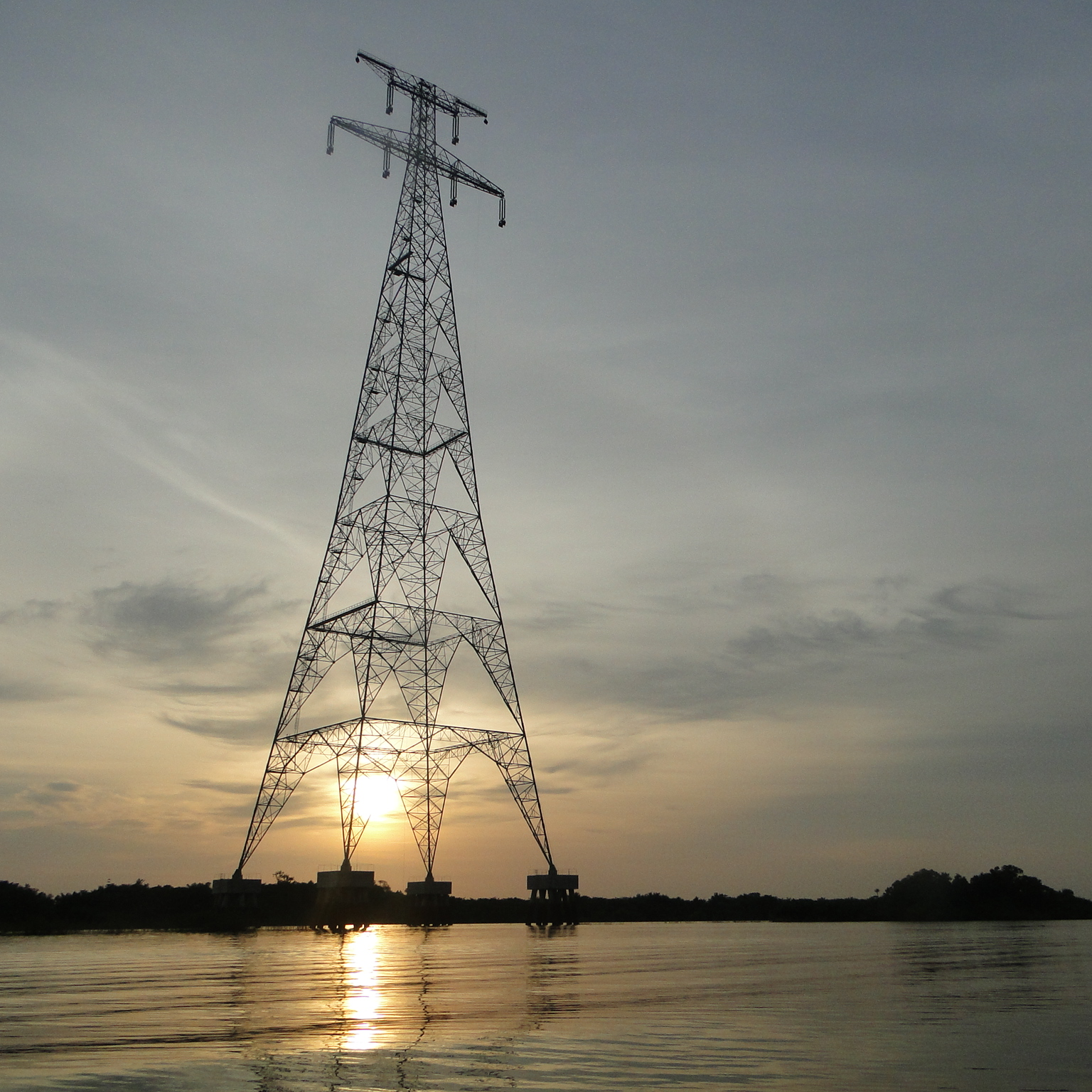 Pylon on the Linha de Transmissão - Tucuruí - Macapá - Manaus